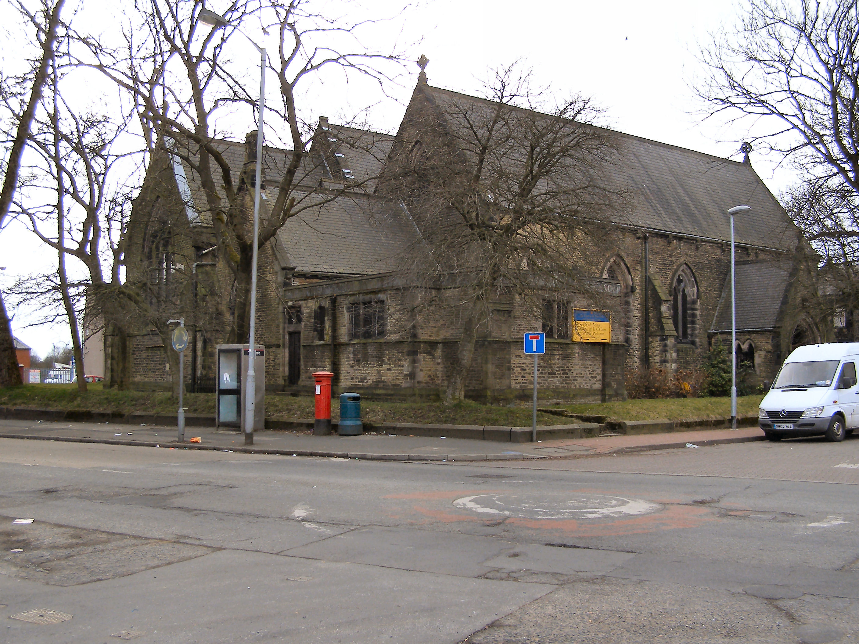 The Church of the Most Holy and Undivided Trinity